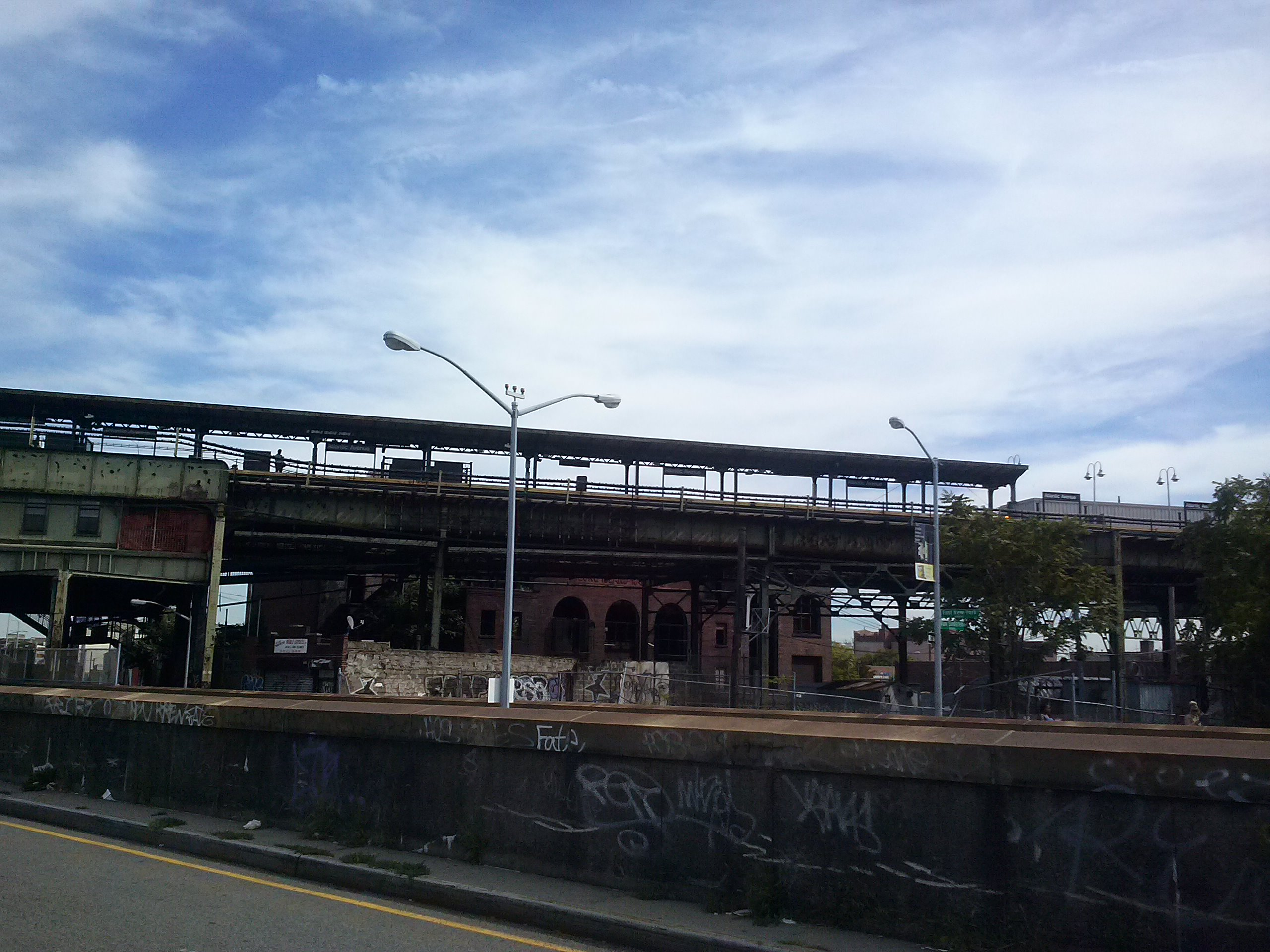 brownsville lirr station 1